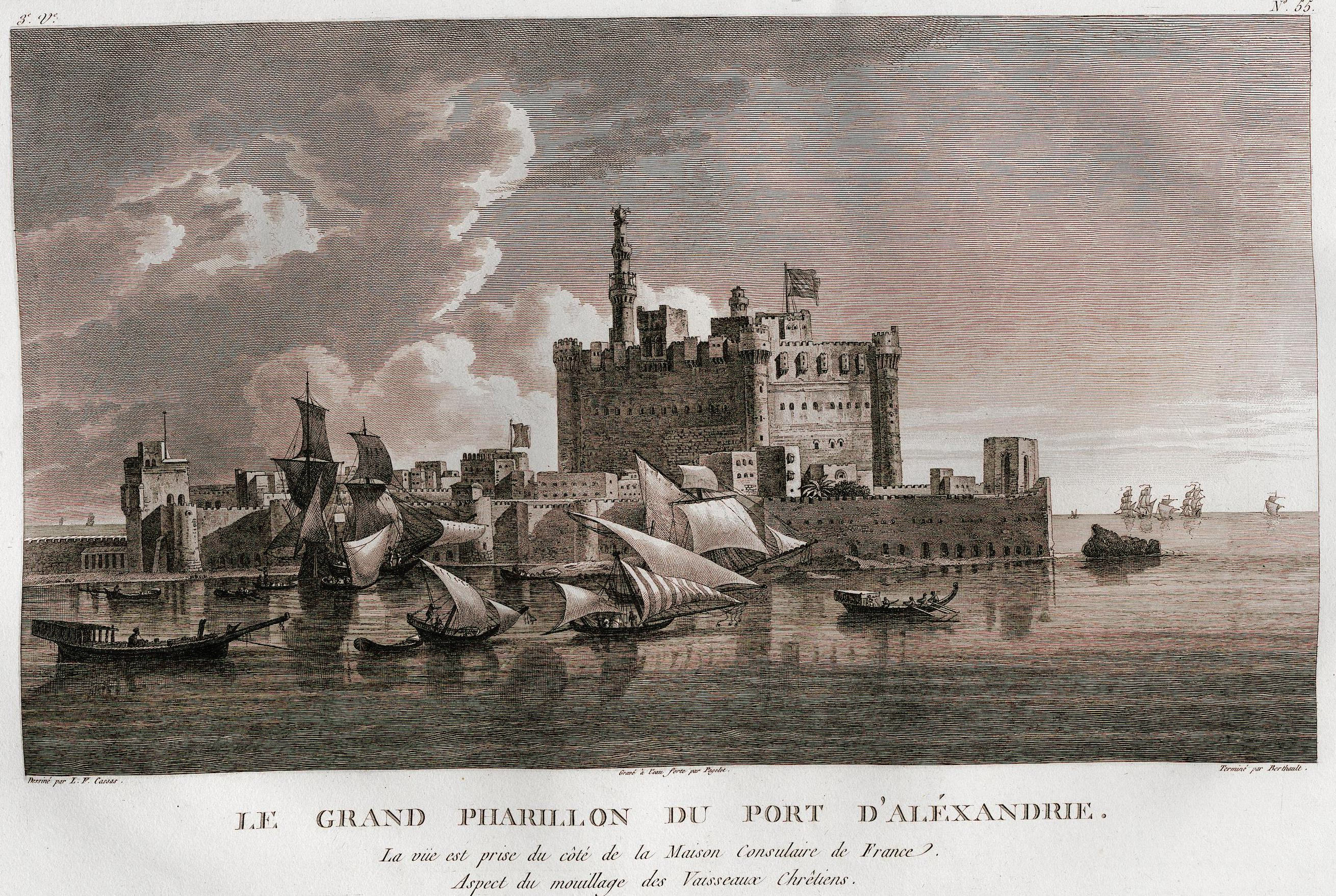 Louis-François Cassas From: Voyage pittoresque de la Syrie, de la Phoenicie, de la Palaestine et de la Basse Aegypte: ouvrage divisé en trois volumes contenant environ trois cent trente planches